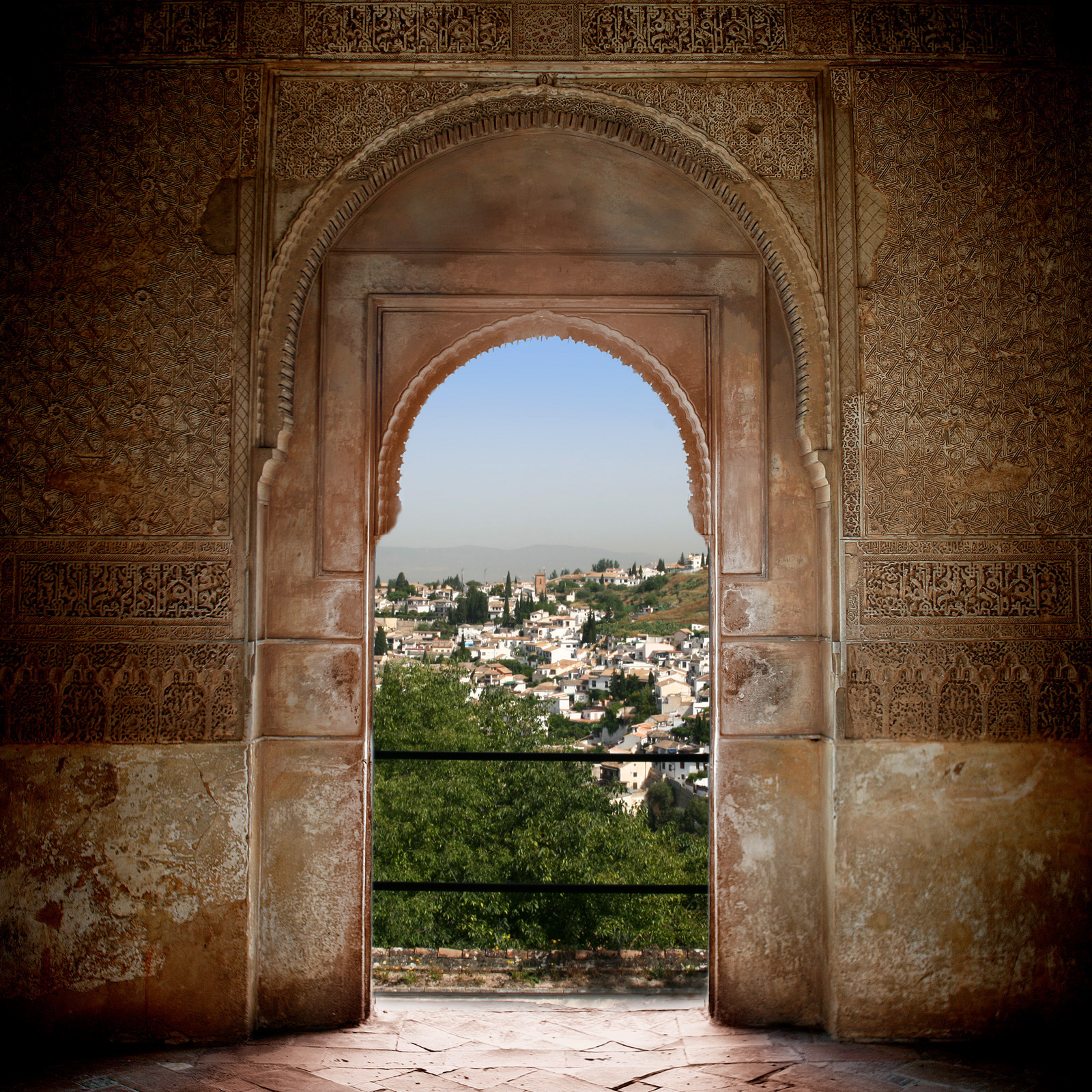 A view across the old town of Granada from the spectacular Alhambra y Generalife.